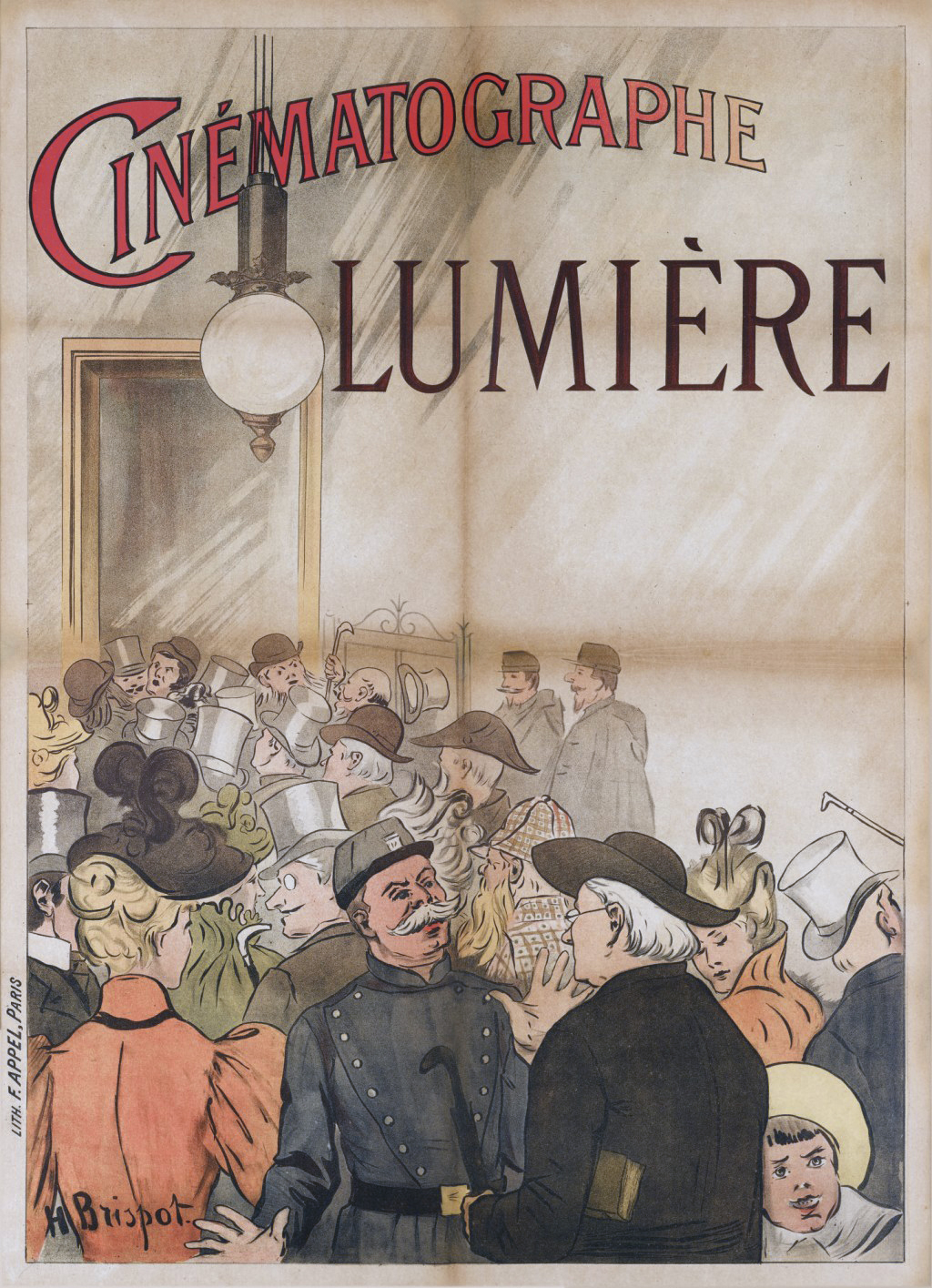 Poster for the first ever public screening of a film 126.7 x 96.5 cm 1896